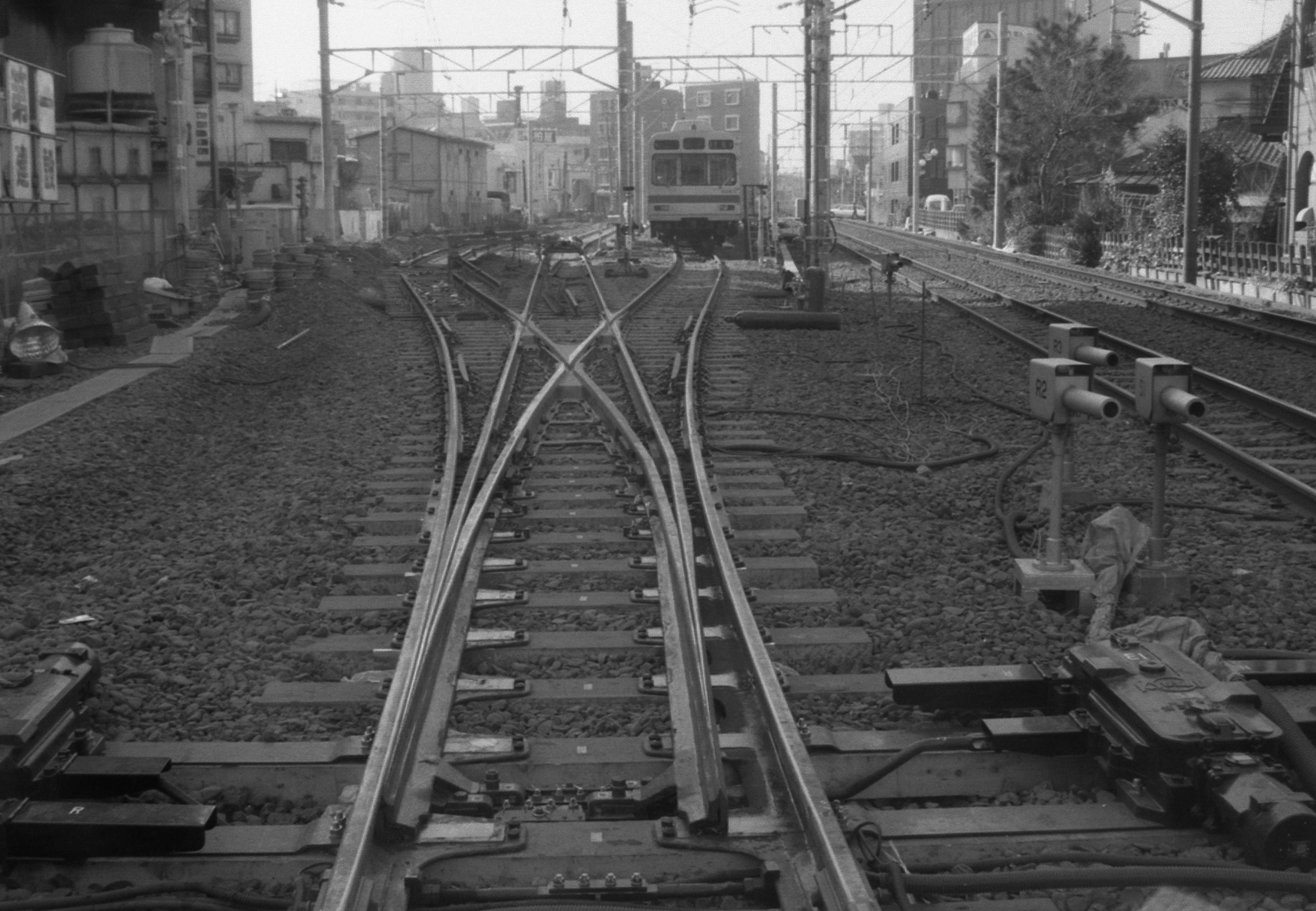 Three way crossing at Tokyu Jiyugaoka station